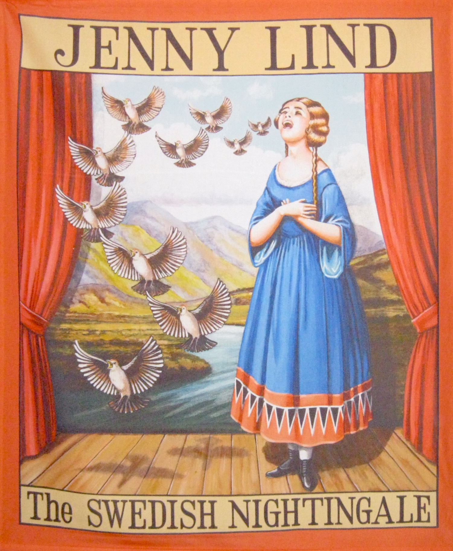 Jenny Lind the Swedish Nightingale. Poster from the collection of the University of Sheffield.